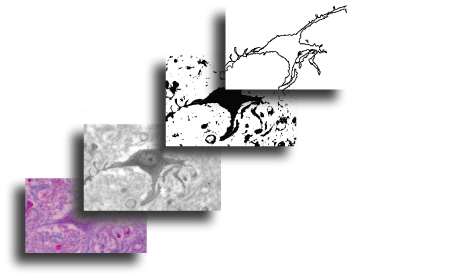 Illustrates steps from colour digital image to binary digital image for fractal analysis